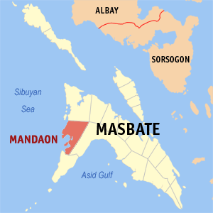 Map of Masbate showing the location of Mandaon